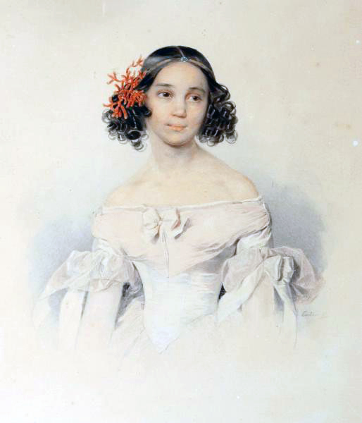 Count Feodor Ivanovich Tolstoy's daughter Sarra